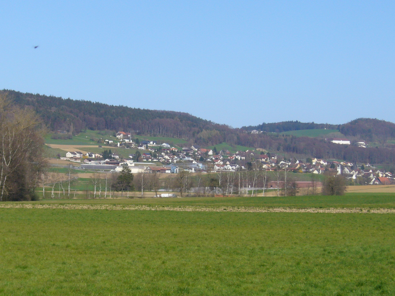 The village of Huettwilen, Canton Thurgau, Switzerland. Picture from Peter Berger. April 6, 2007.